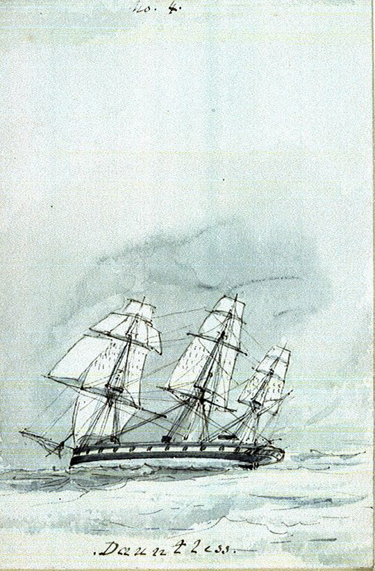 HMS Dauntless in a following wind, Nov 17 1850, by Captain Cowper Phipps Coles RN, in the collection of the National Maritime Museum. This image has been uploaded to illustrate the article on HMS Dauntless.